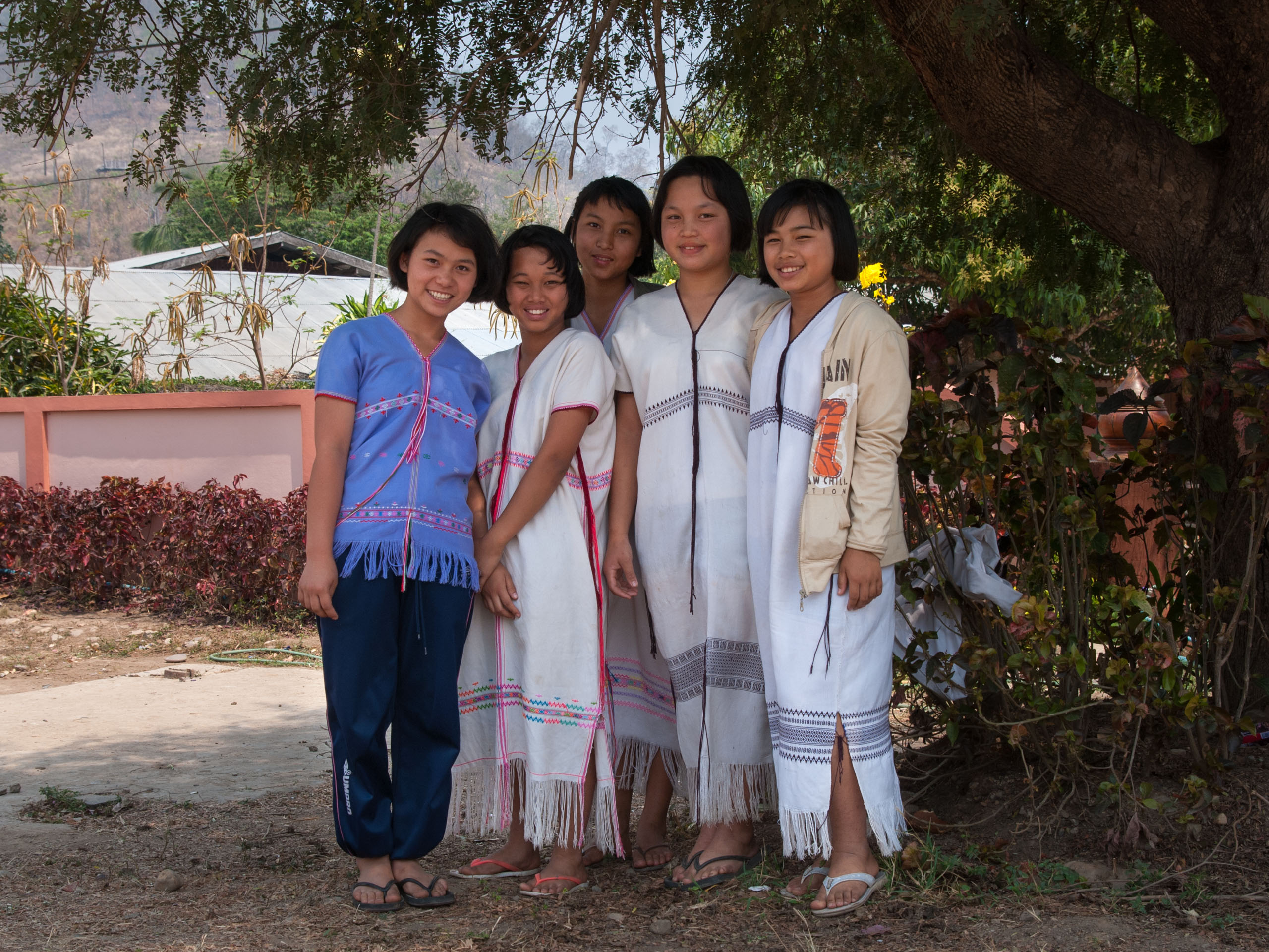 Karen girls just outside their school in March 2010. Unmarried girls usually wear the simple white dresses as shown in the image. I am not sure why the girl on the left is wearing a short blue blouse as it isn't the usual dress for a married woman either. These girls belong to the Pagaguryor subgroup (Thai script: ปกากะญอ; RTGS Pakakayo), better known as the "Skaw Karen" or "S'gaw Karen" in literature, who are the main Karen subgroup in Thailand. This image was made in Ban Nong Haeng, in tambon Mueang Pon, Khun Yuam District, Mae Hong Son Province, Thailand.